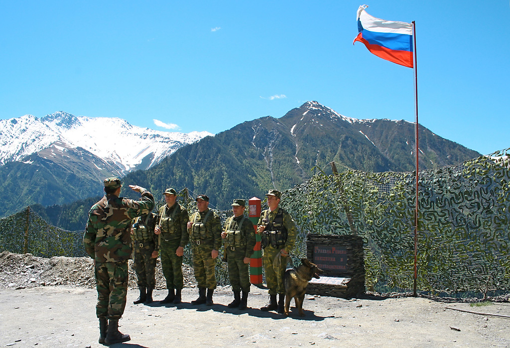 “Sentries posting”. A border guard outpost near Khushet, a Dagestani village in the North Caucasus.